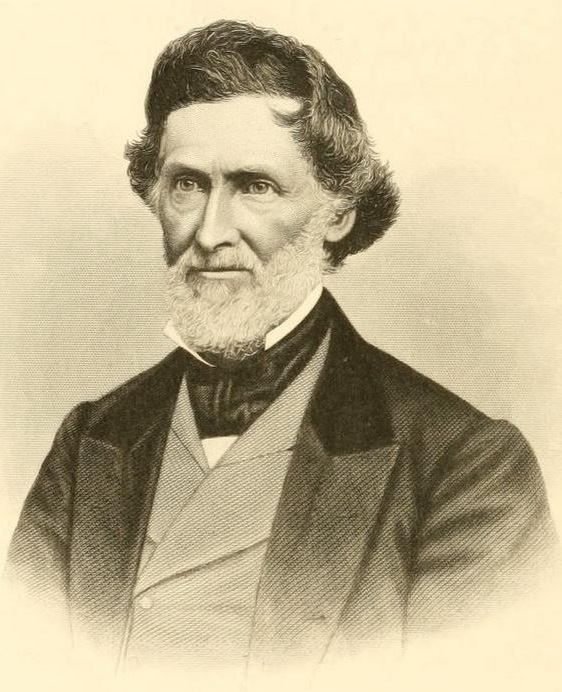 Luther Martin Kennett (St. Louis, Missouri Mayor and Congressman)